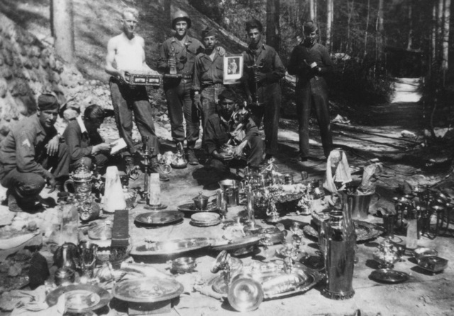 1269th Engineer Combat Battalion, Company A (May 1945) Lt. Jones & 2nd Platoon men with Goering's looted treasures they recovered from a sealed cave near Berchtesgaden, Germany.